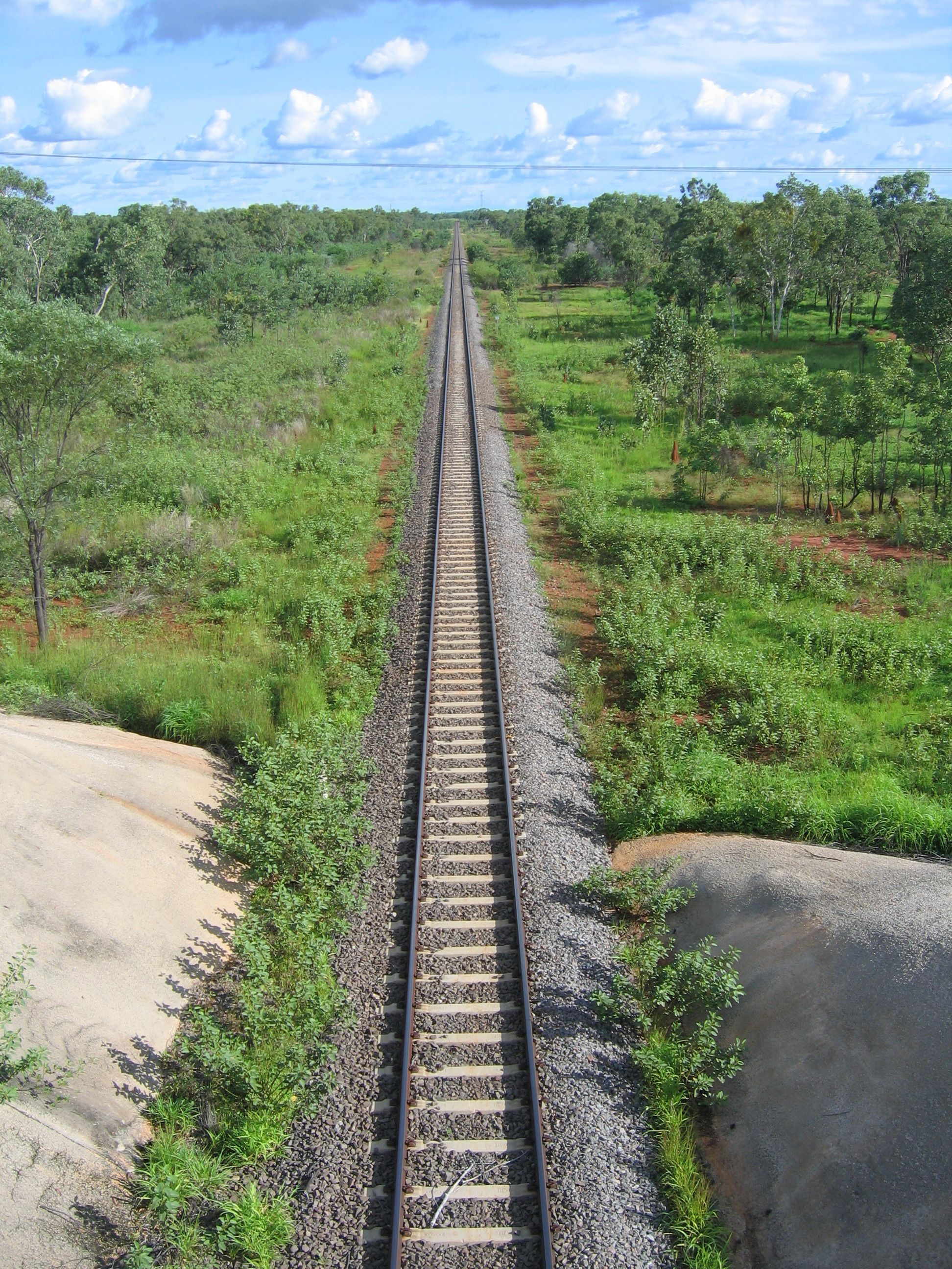 Central Australian Railway, north of Katherine